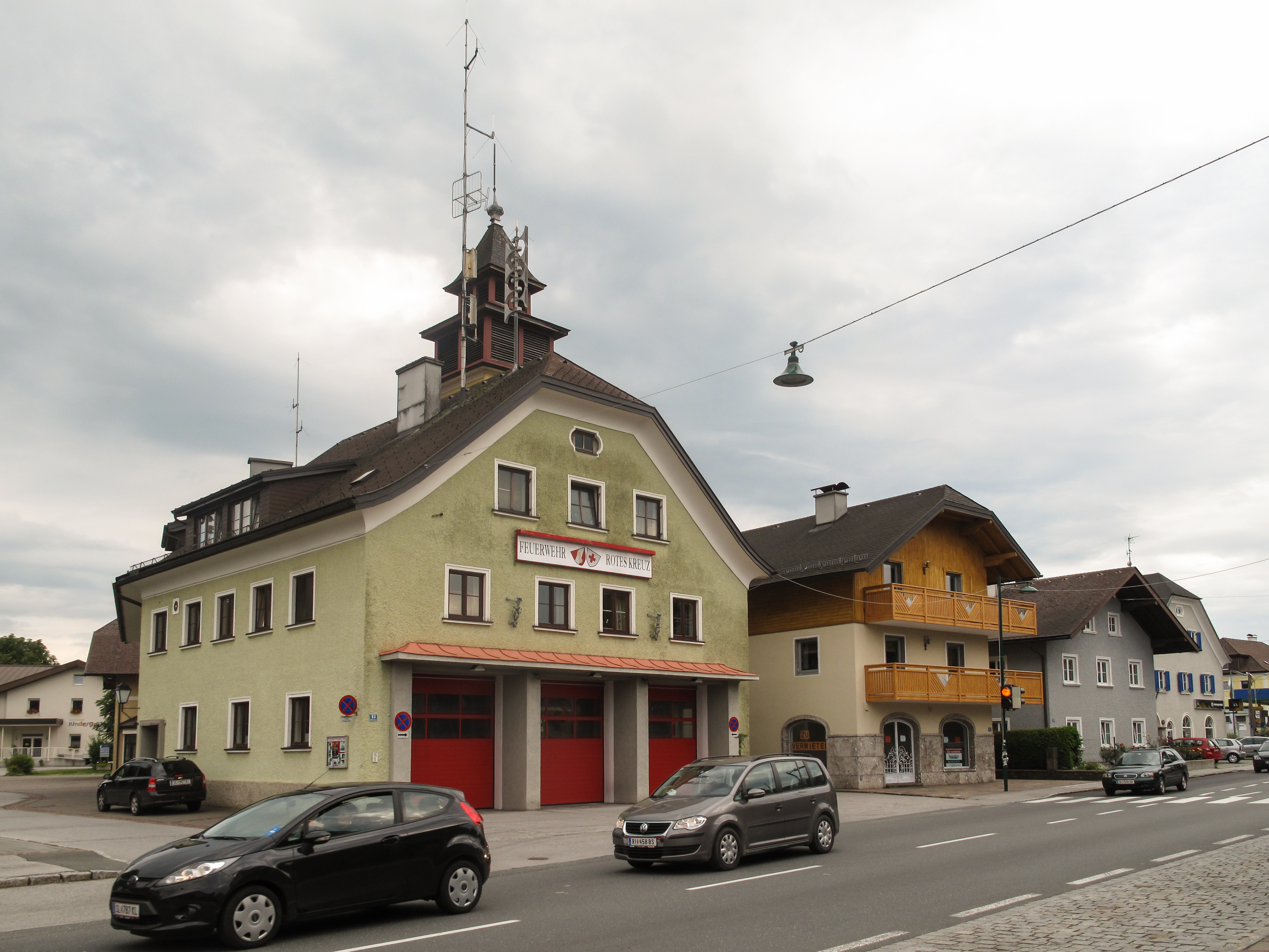 Strasswalchen, a street